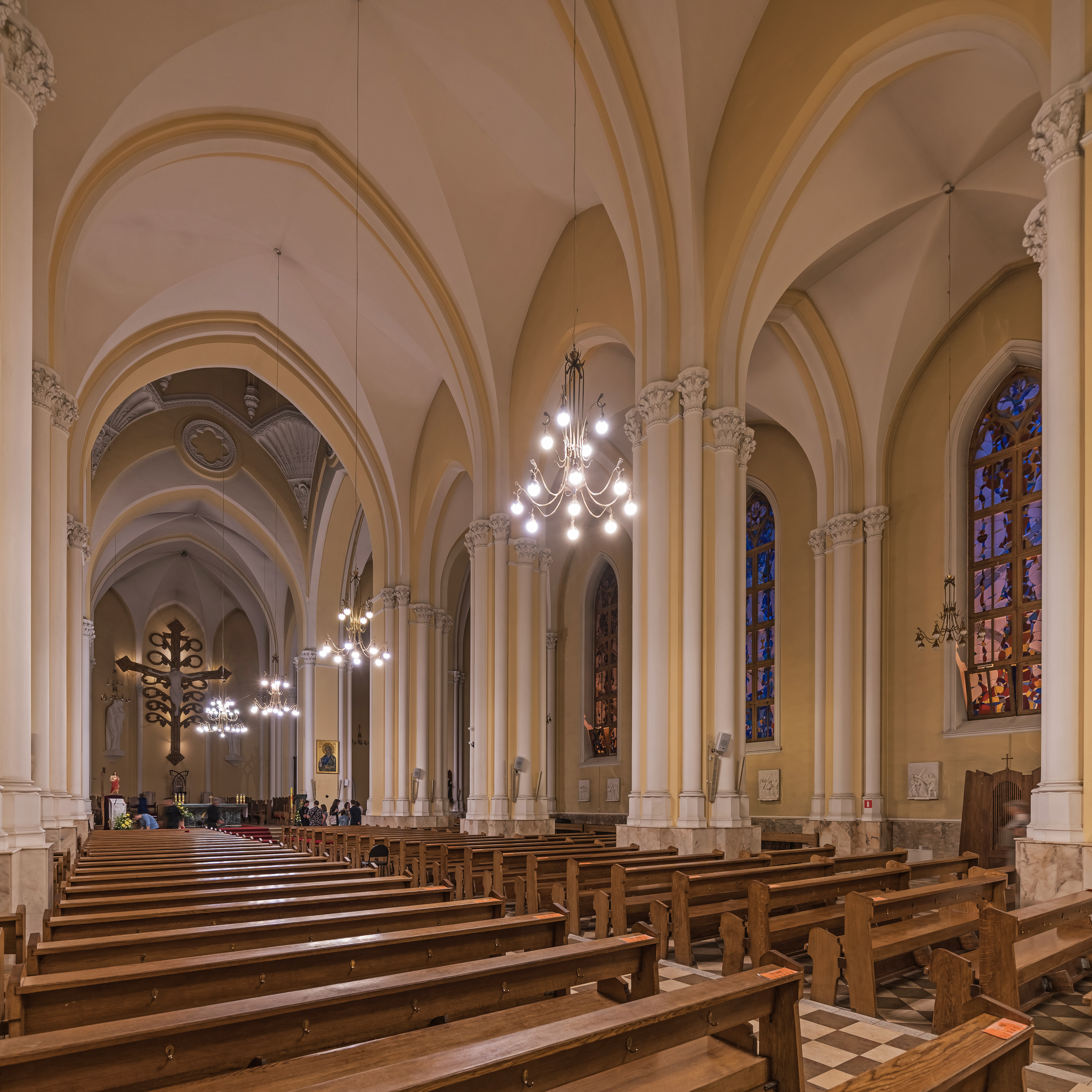 Roman Catholic Cathedral of Immaculate Conception in Moscow, Russia